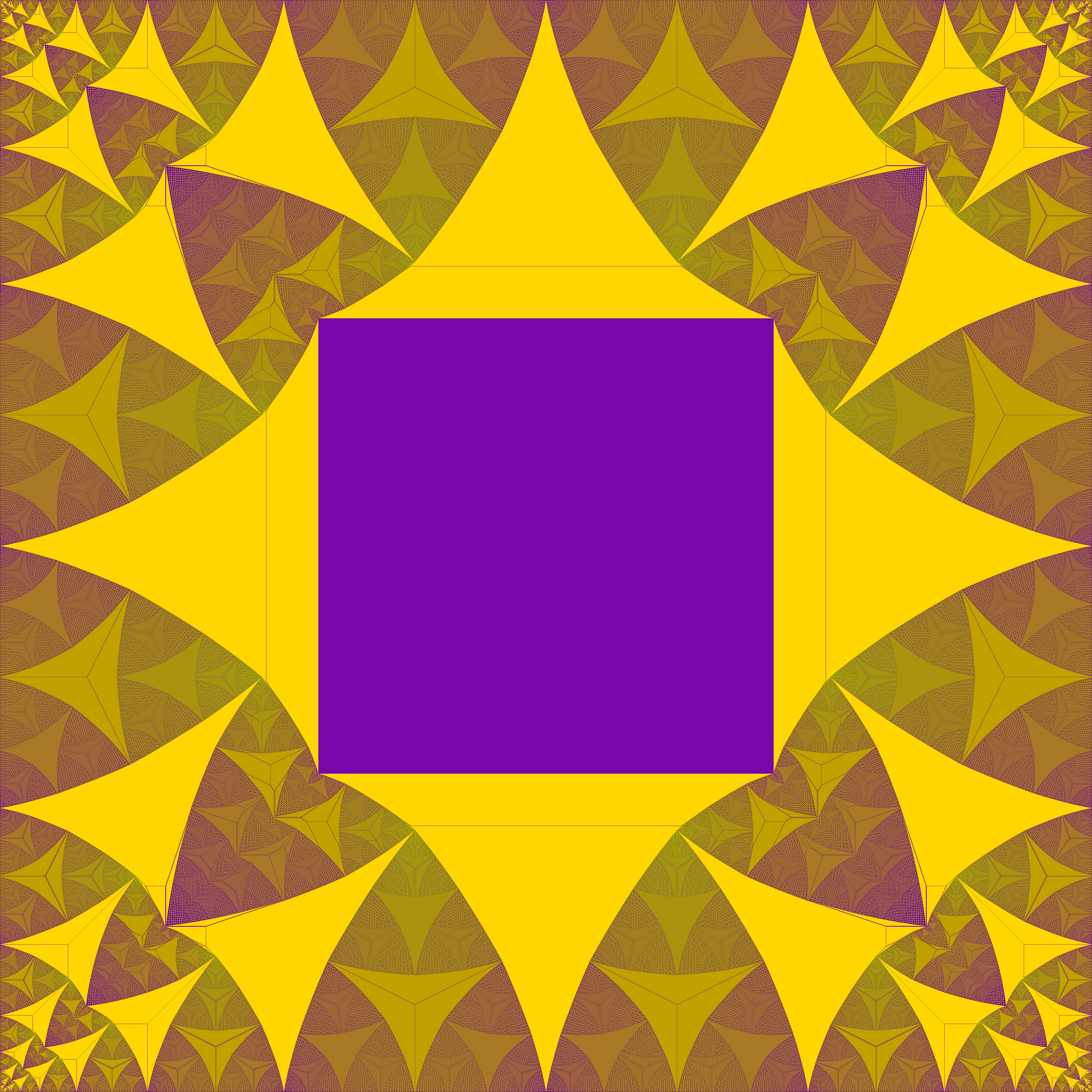 The neutral element of the Abelian sandpile group on the 4096×4096 grid. Golden color corresponds to 3 grains in the cell, purple to 2, green to 1, black to 0. If one adds the neutral element to any recurrent sandpile, that sandpile will return to its original form after stabilization. For many binary operations, the neutral (or identity) element is very simple (e. g., it is zero in the case of the addition of numbers, or unity in the case of the multiplication), but the sandpile model is the classical example of a group which has a very complex neutral element. One can see some regular and fractal structures in the image, but their presence has not yet been explained or proved. Generated by Compressed by .